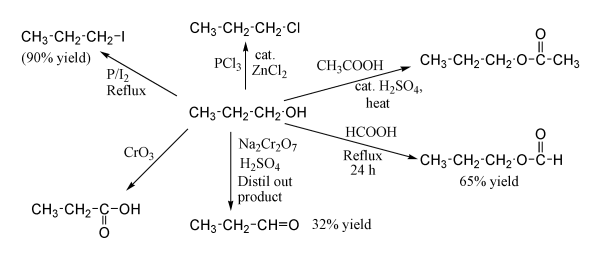 Some reactions of propan-1-ol, drawn in ChemDraw and uploaded by User:Walkerma in September 2005.